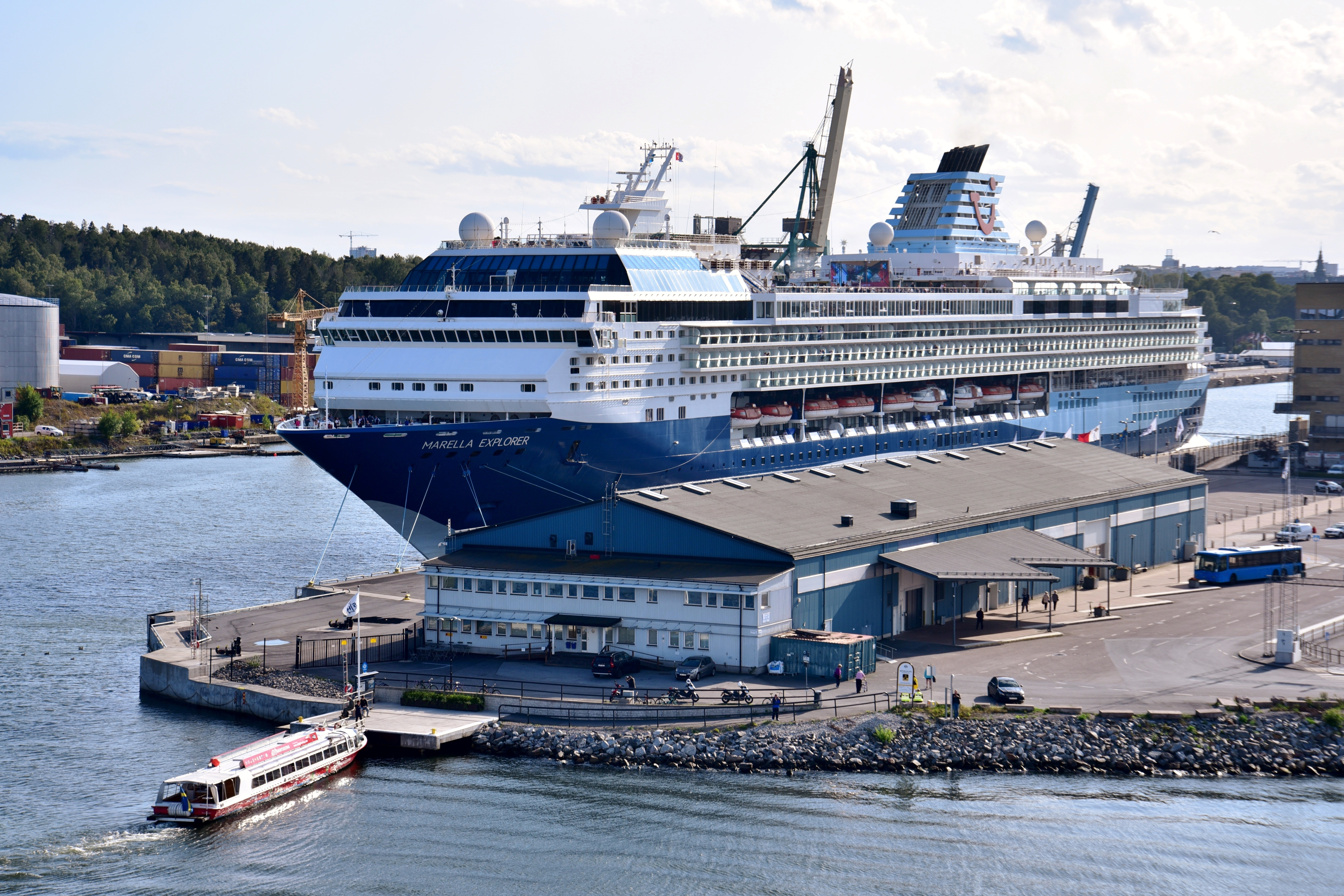 The cruise ship Marella Explorer, berthed at Magasin 9, Stockholms frihamn, Port of Stockholm